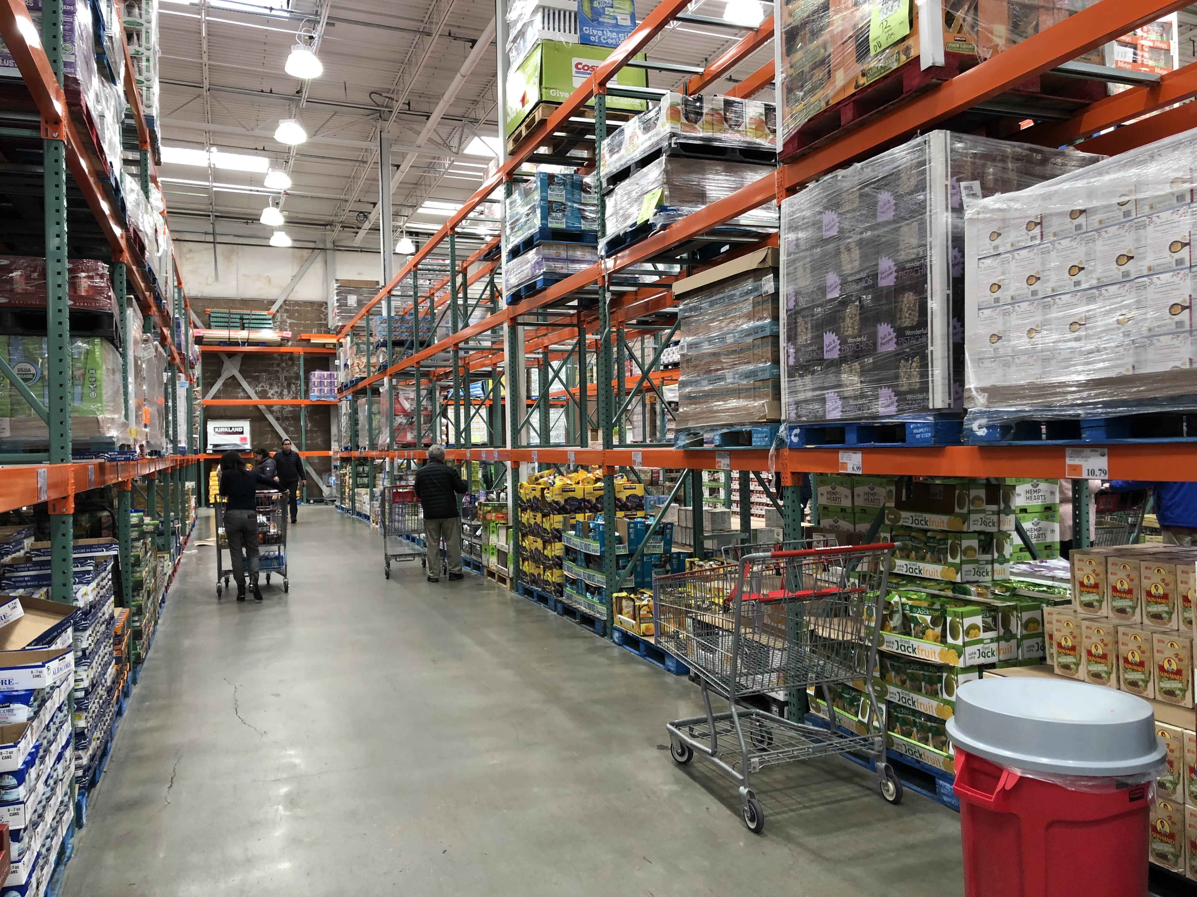 Empty shelves in the Costco Warehouse store in Waltham, Massachusetts on Monday afternoon, March 2, 2020, after a weekend of intense shopping in the early days of the COVID-19 crisis.